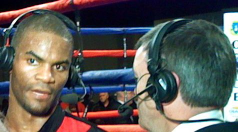 Boxer Allan Green and commentator Teddy Atlas